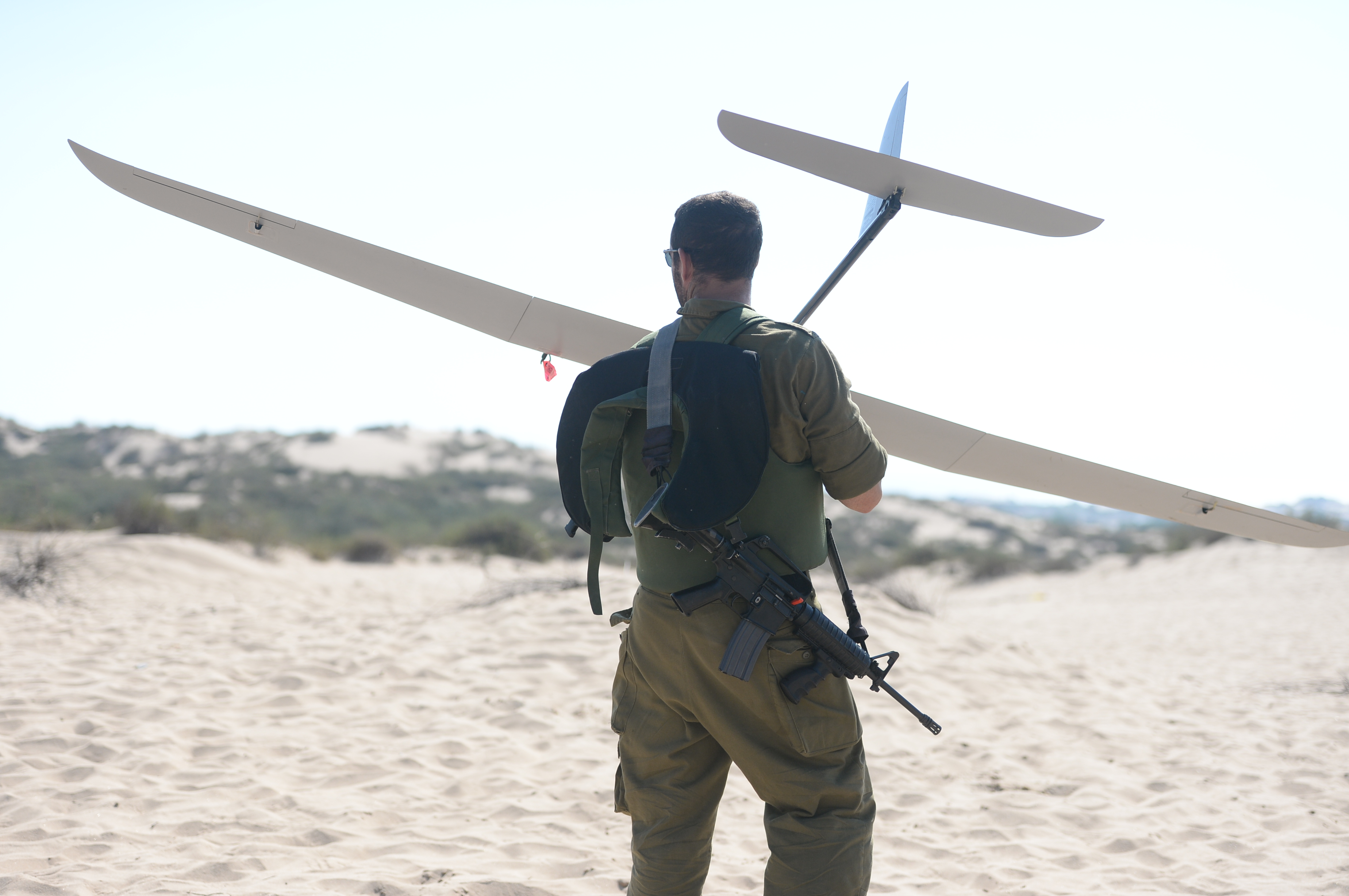 IDF’s elite Skylark unit, nicknamed the “Sky Riders,” is the eyes of the operation. Since the beginning of the operation, the Sky Riders provides an real life footage of what happens in Gaza. For more updates: The Israel Defense Forces Facebook The Israel Defense Forces blog Follow us on Twitter